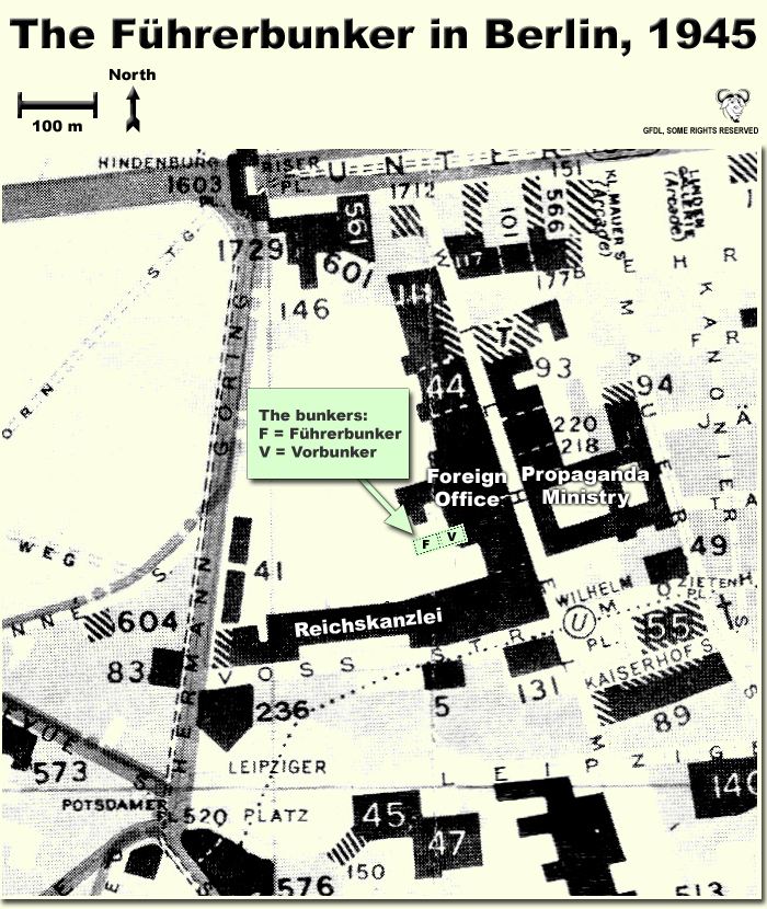 Map showing the locations of the Fuehrerbunker and Vorbunker in Berlin, 1945. For more detailed information, please see below.